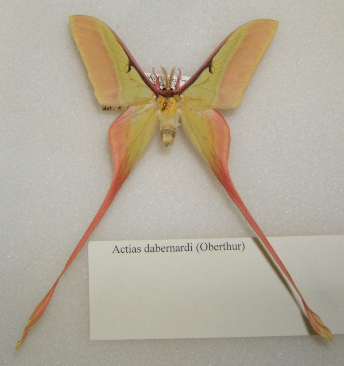 Actias dubernardi adult male taken by Shawn Hanrahan at the Texas A&M University Insect Collection in College Station, Texas.